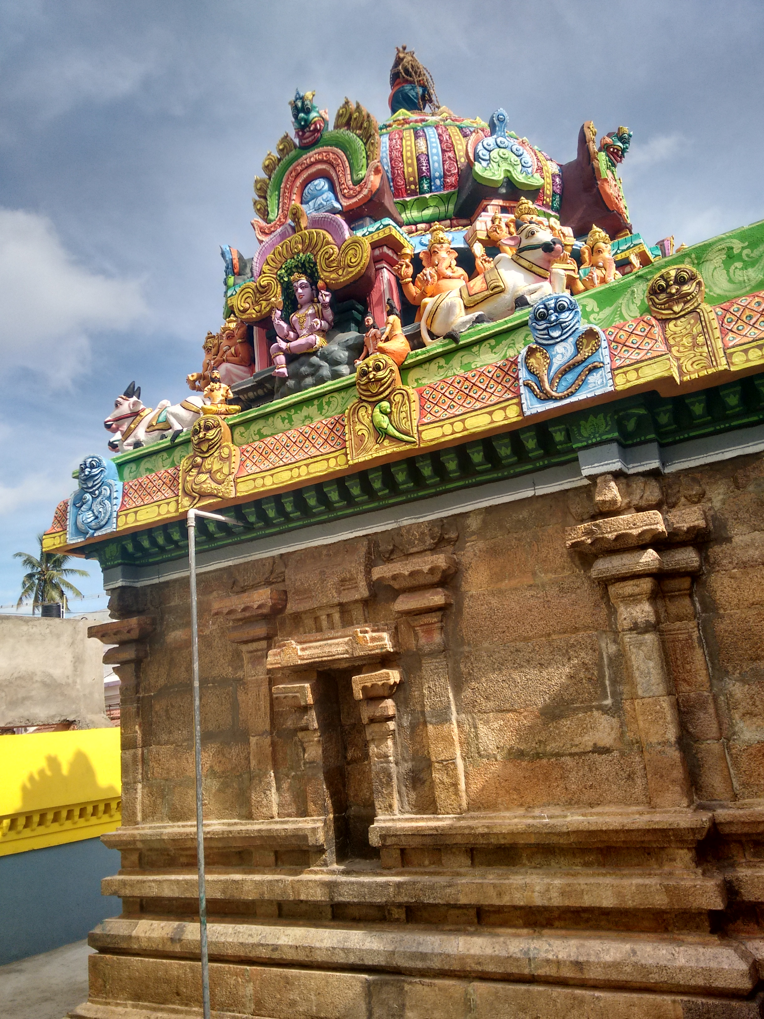 Pettai panjukkara street vinayakar temle2 பேட்டை பஞ்சுக்காரத்தெரு விநாயகர் கோயில்2